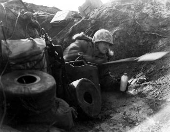 United States Marines launch a counterattack to regain enemy-held positions at Outpost Vegas on Korea’s Western Front on 27 March 1953. It was the bloodiest action Marines on the Western Front had engaged in up to that date.